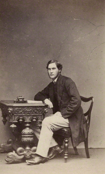 Cropped photograph of William Henry Gladstone by Thomas McLean & Co.